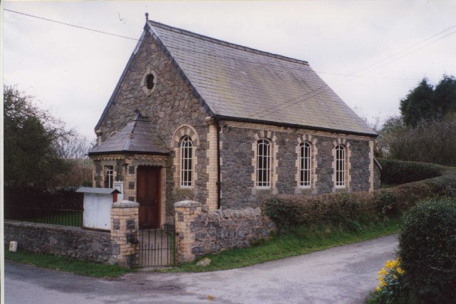 Hyssington Chapel. A Primitive Methodist chapel with an unusual combination of rough-hewn stone and yellow-brick dressings.